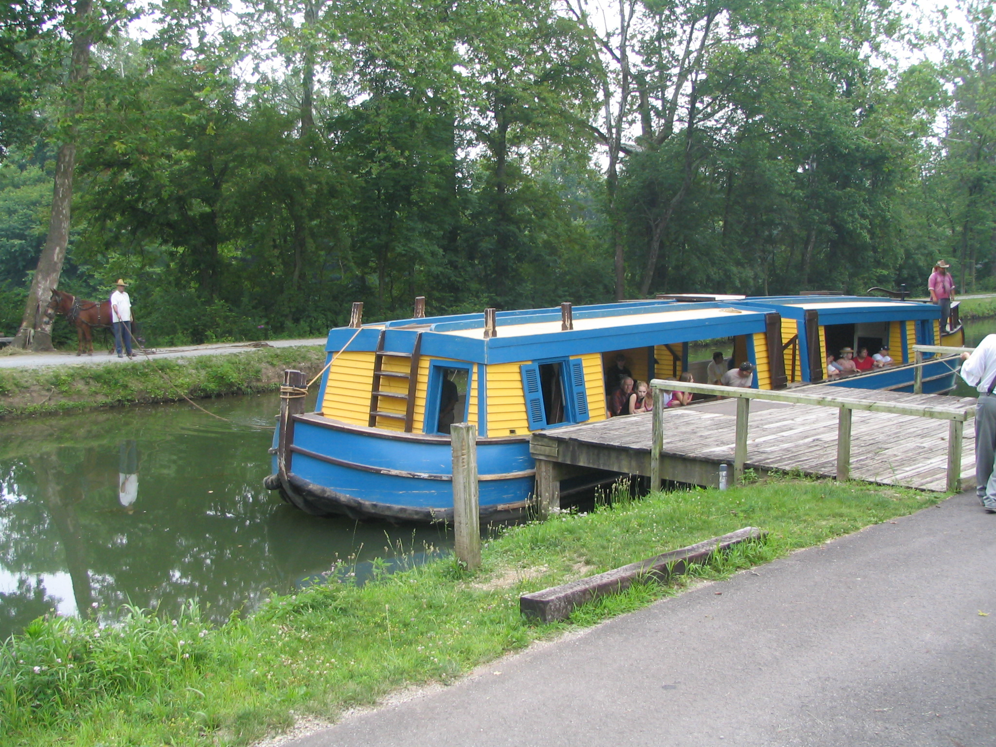 General Harrison of Piqua canal boat in the Piqua, Ohio Historical Area. This photo shows the captain steering the canal boat and the donkey/ass pulling the boat along the Miami and Erie Canal.